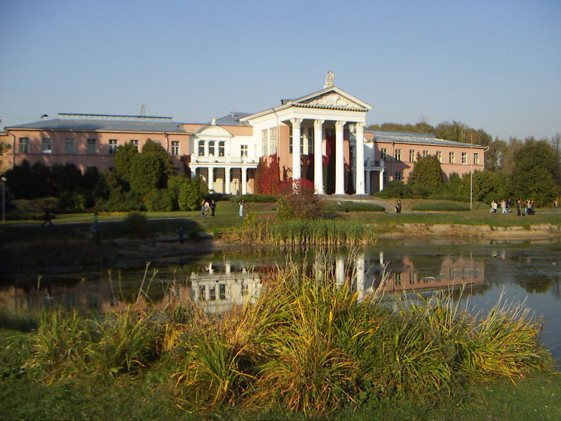 Moscow Botanical Garden of Academy of Sciences